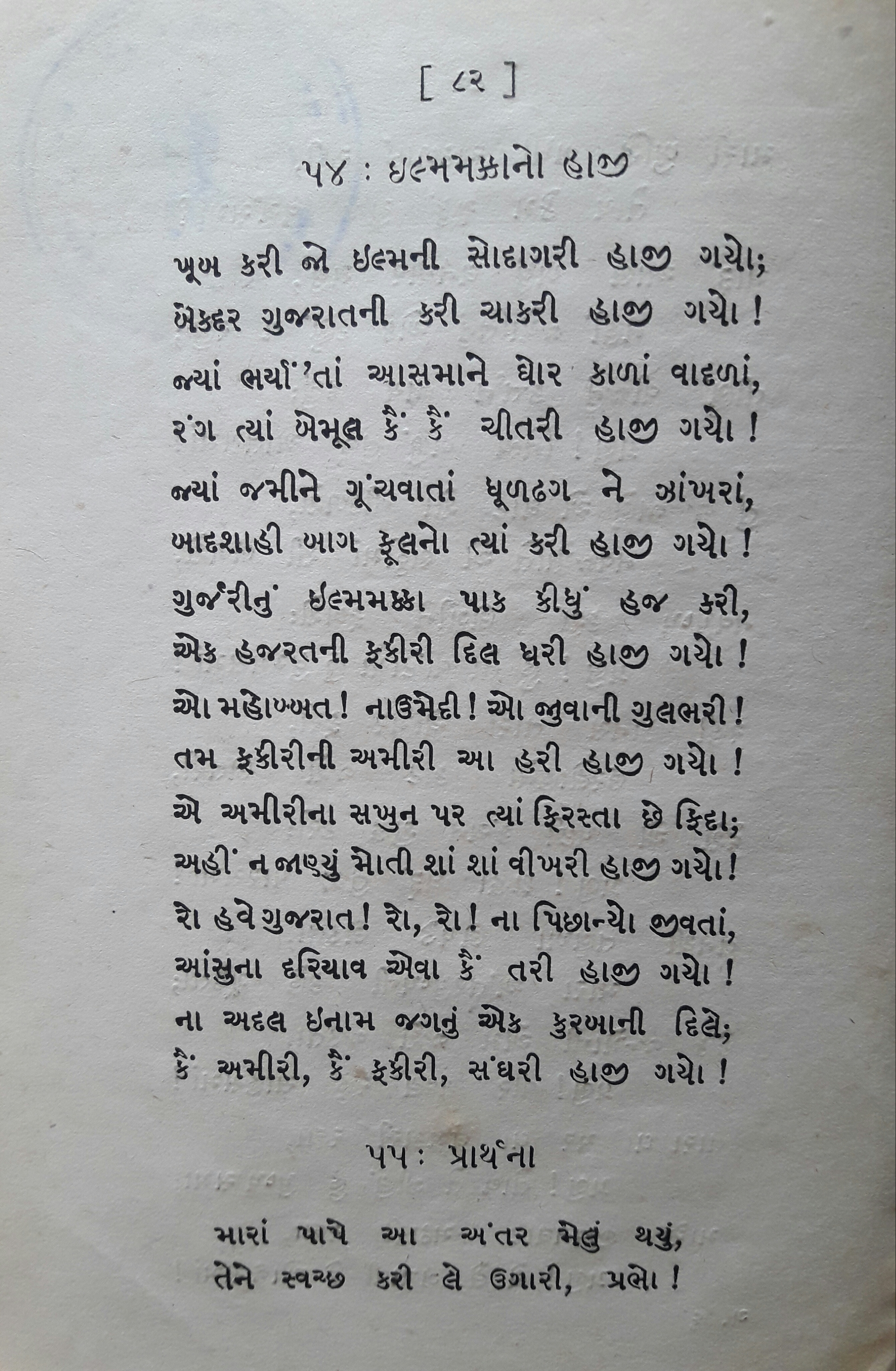 Ilmamakka No Haji , a Ghazal poem written by Indian poet Ardeshar Khabardar (1881-1953). The poem is printed in the book (p. 82) "Gujarat Ni Ghazalo" (1943) edited by Krishnalal Jhaveri. ગુજરાતી: ઇલ્મમક્કાનો હાજી - અરદેશર ખબરદાર દ્વારા લીખીત ગઝલ